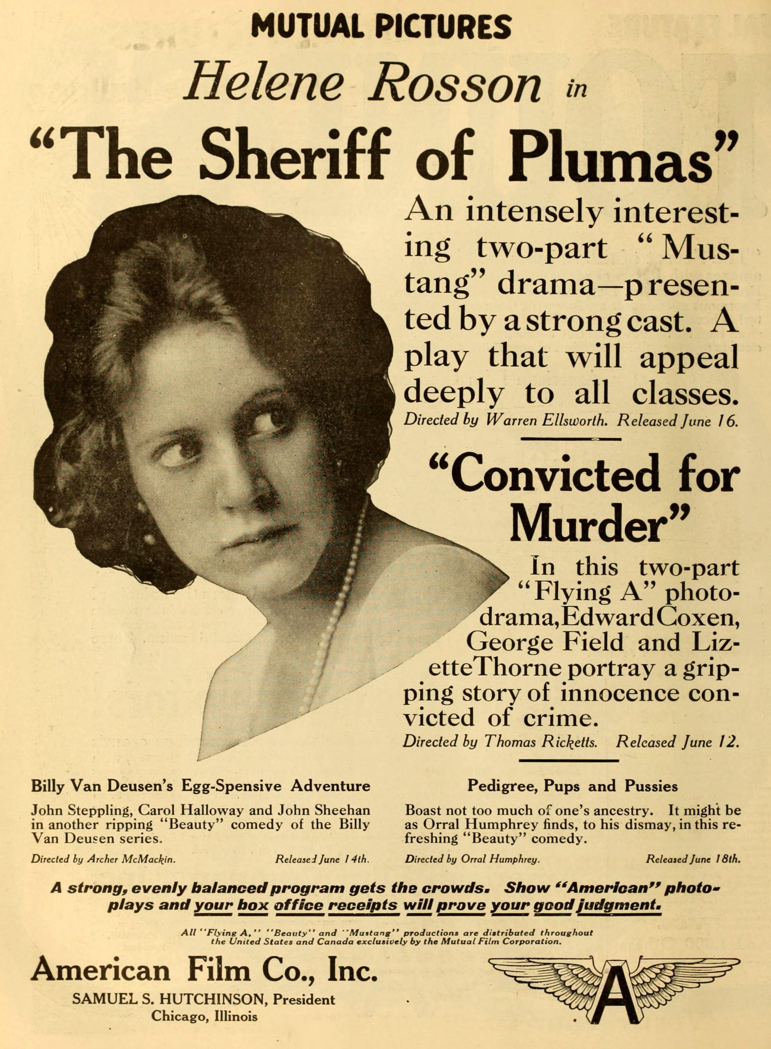 Advertisement in The Moving Picture World for the film The Sheriff of Plumas (1916) with Helene Rosson.